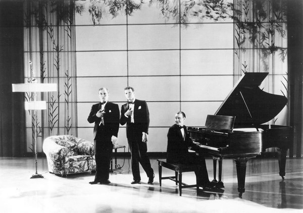 A scene from King of Jazz where The Rhythm Boys perform "So the Bluebirds and the Blackbirds Got Together"